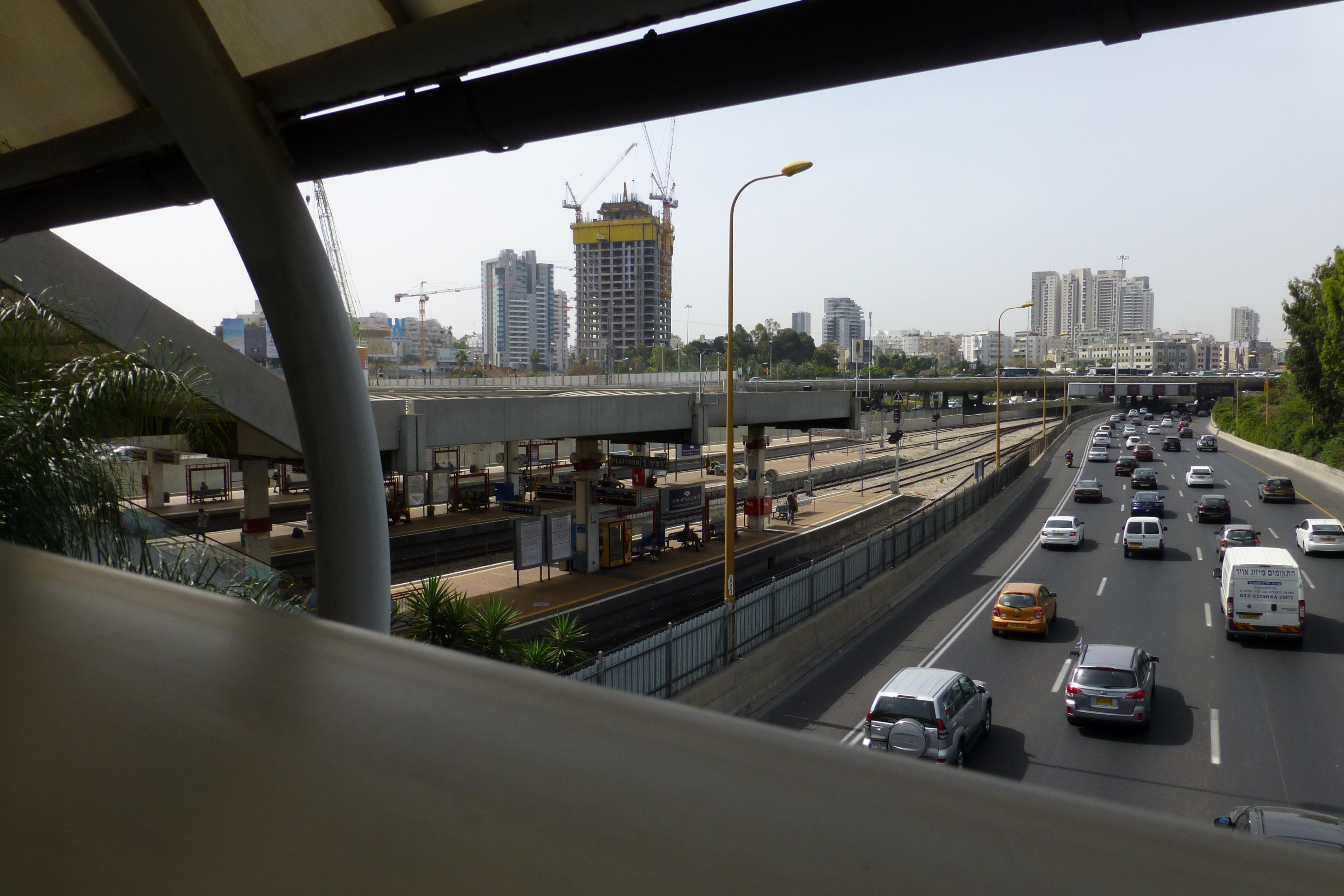 Tel Aviv Central Savidor train station